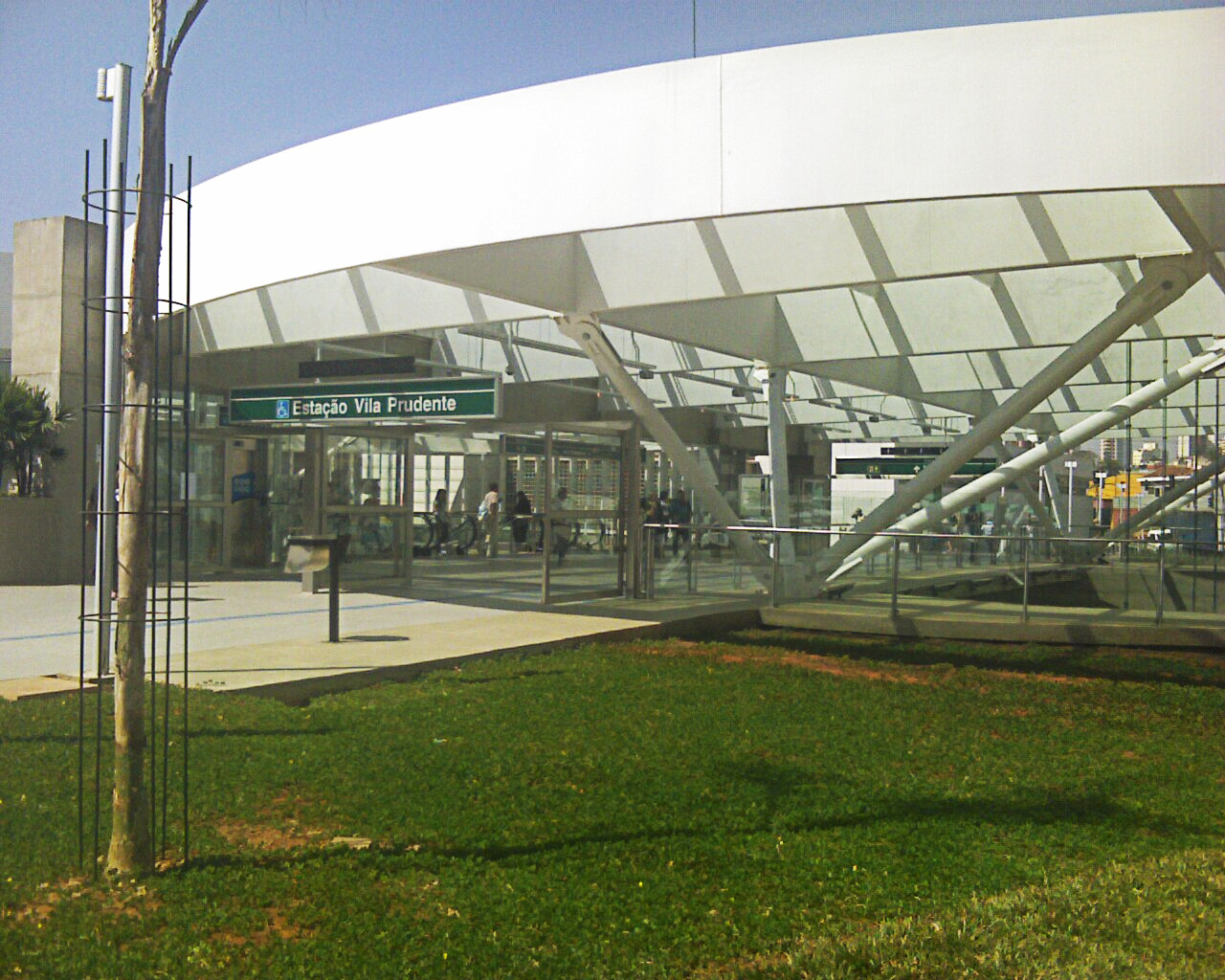 Vila Prudente station at Line 2 of São Paulo Subway.